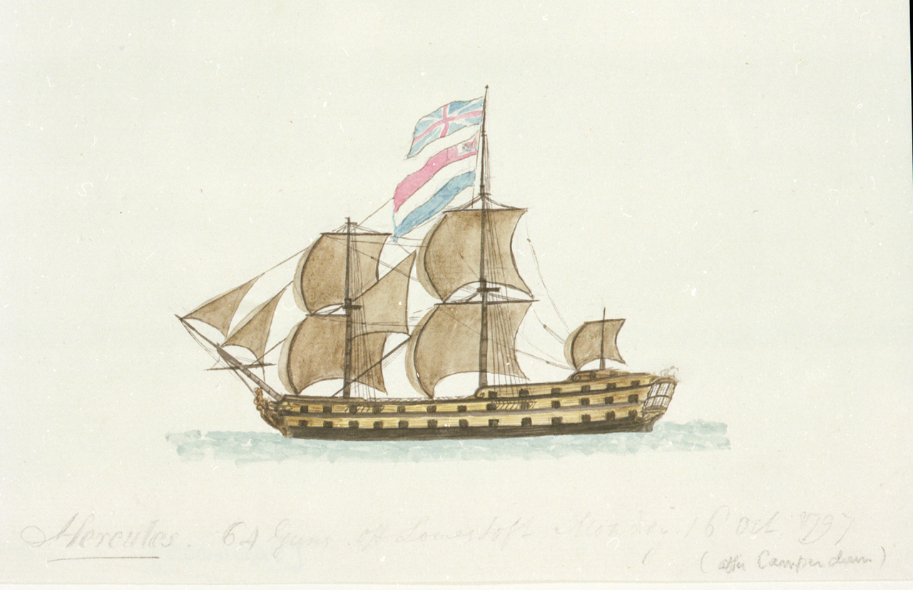 The Dutch ship Hercules after the Battle of Camperdown (11 October 1797). The ship was renamed HMS Delft.